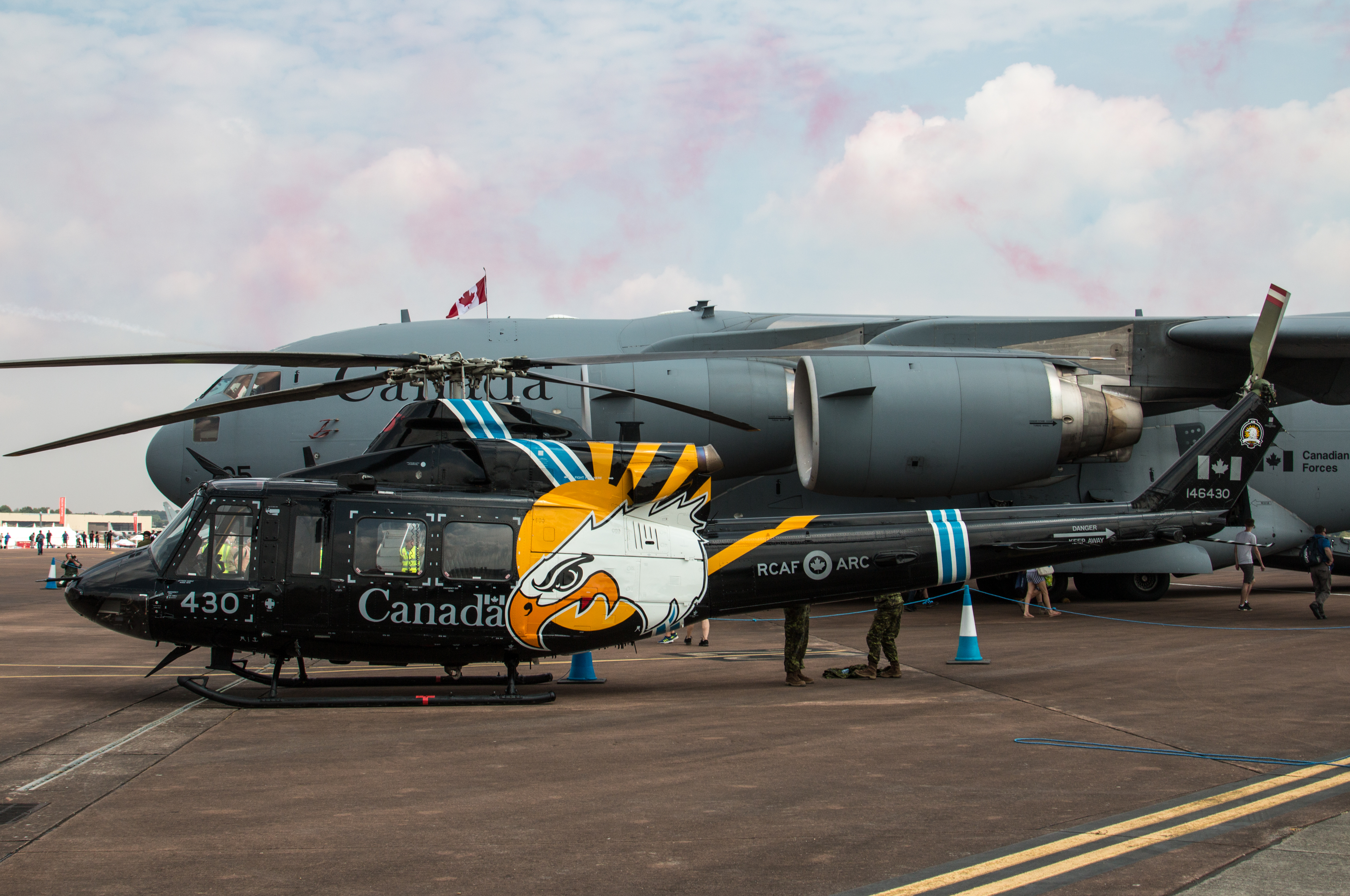 Royal International Air Tattoo 2018, Gloucestershire. Aircraft from 430 Squadron RCAF (RIAT)